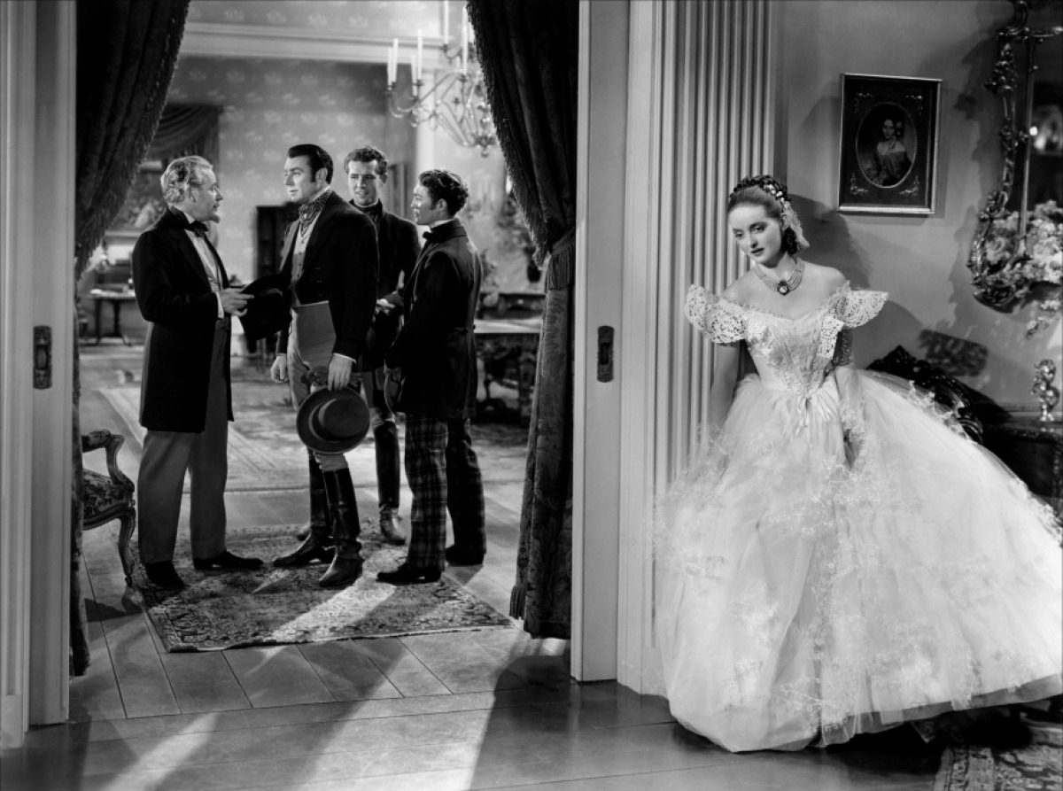 Promotional still from the 1938 film Jezebel, published on the front cover of National Board of Review Magazine